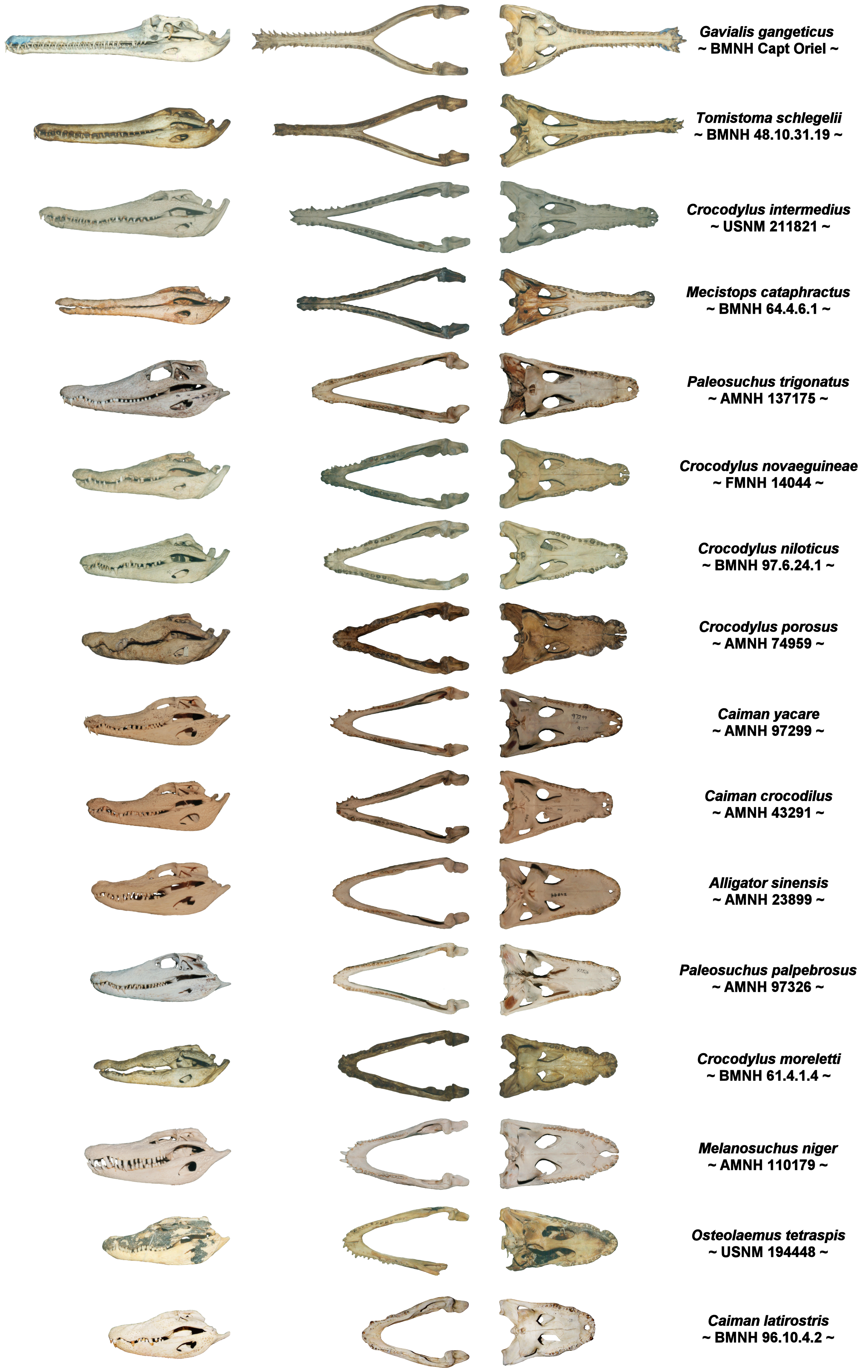 Original figure caption: Range of skull shape in crocodilians. Specimens are scaled to approximately the same width and arranged from most longirostrine to most brevirostrine. Left: cranium and mandible in lateral view, Centre left: dorsal view of mandible, Centre right: Cranium in ventral view, Right: species name and specimen number.